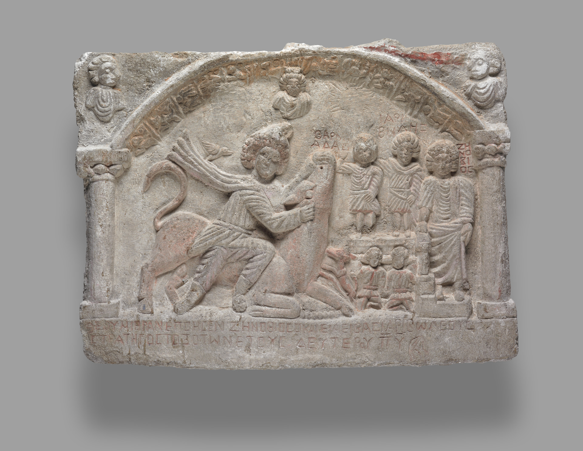 Cult Relief of Mithras Slaying the Bull (Tauroctony)